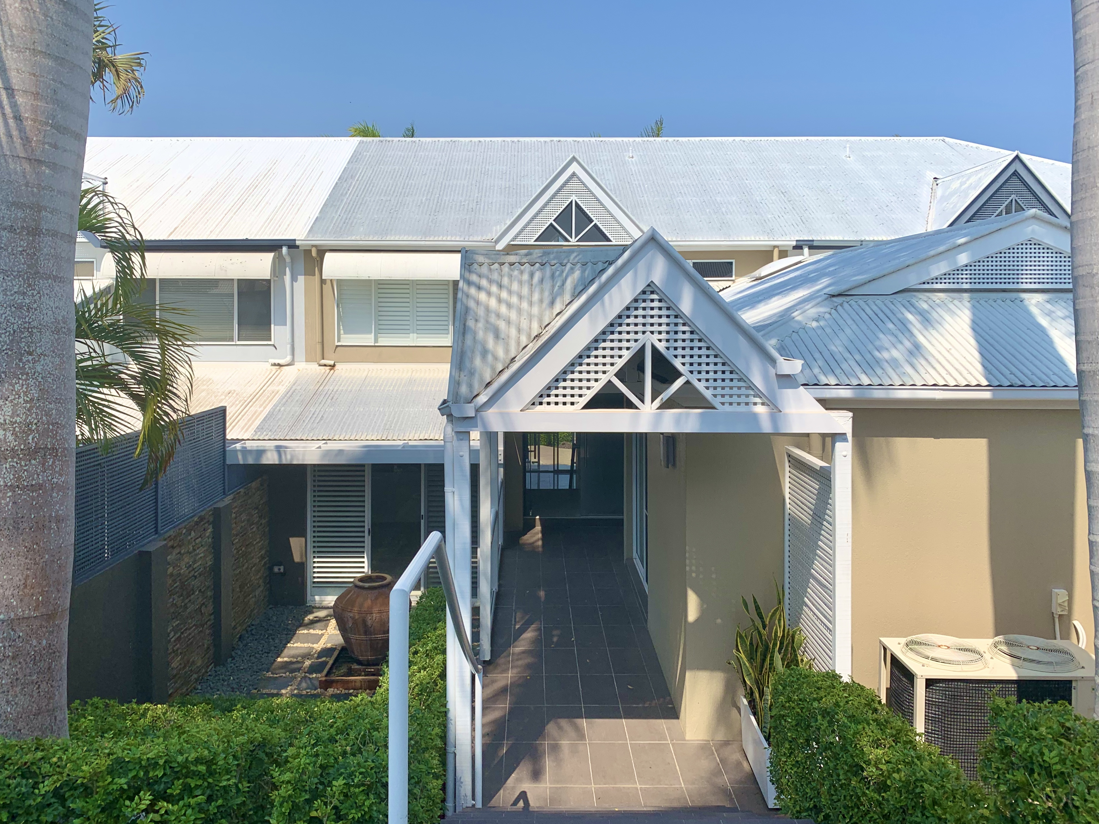 Front yard of terraced house in Sanctuary Cove, Queensland